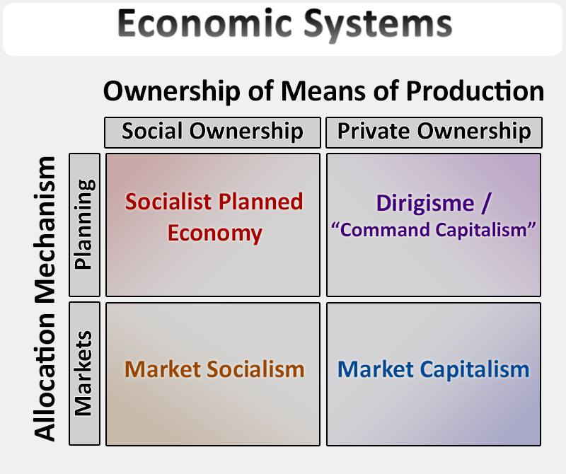 Common basic typology for economic systems segmented by property rights and allocation mechanisms.